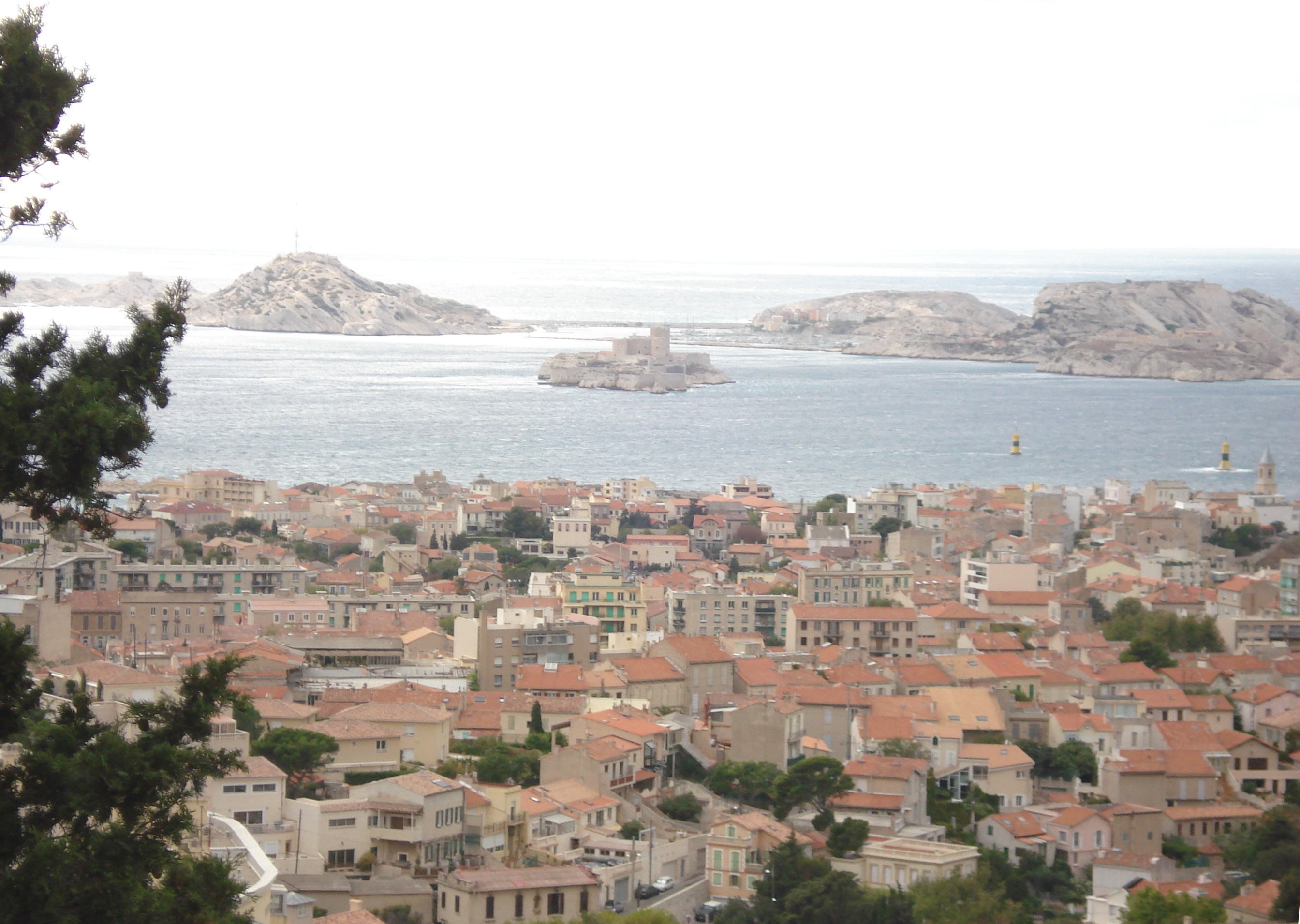 View towards Chateau If